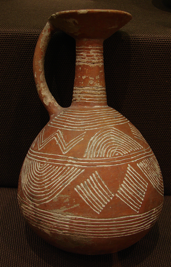 Cypriot Bronze Age jug, 2000-1550 BC